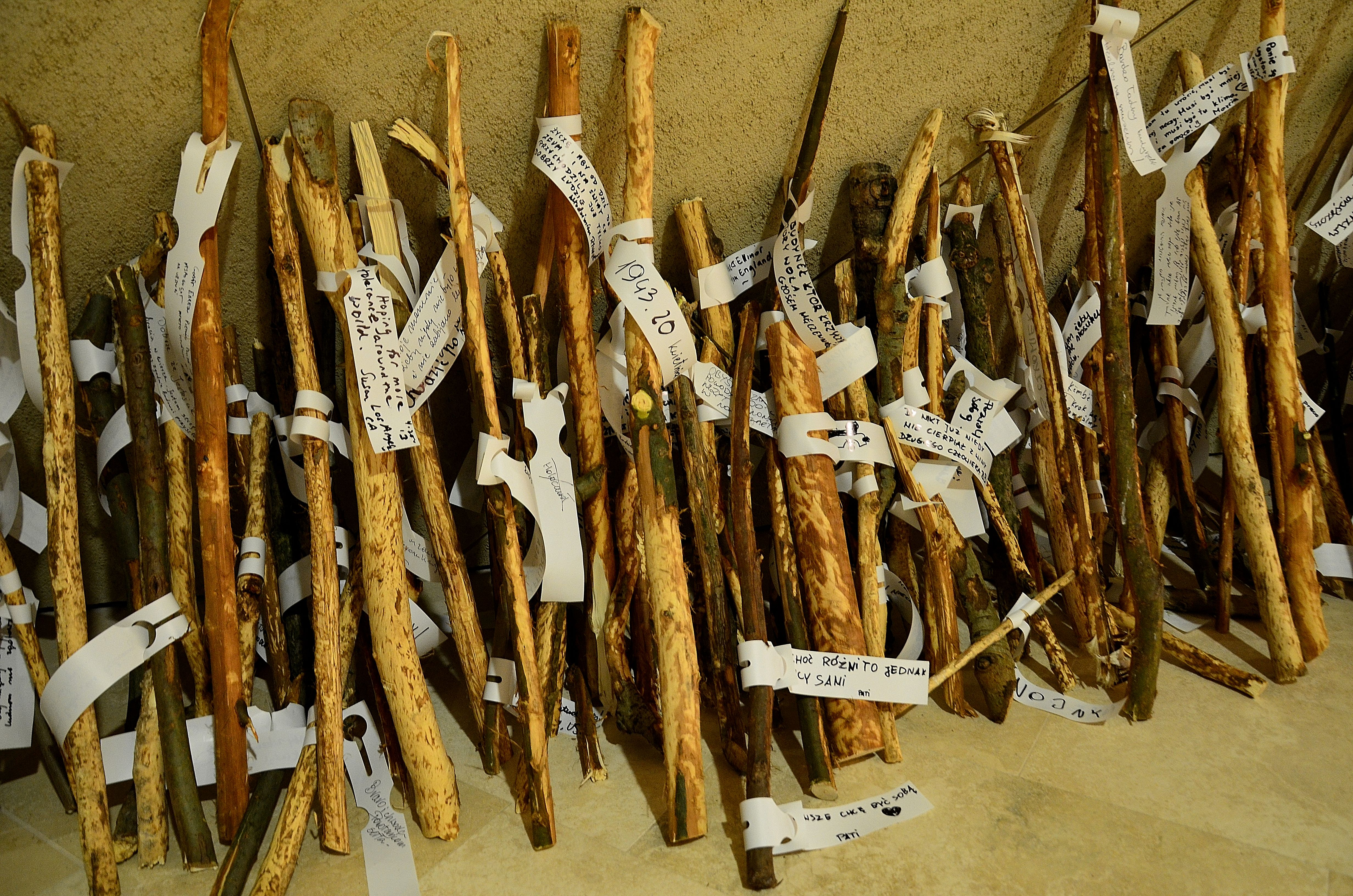 "My museum – Tree of Dreams". Museum of the History of Polish Jews in Warsaw.